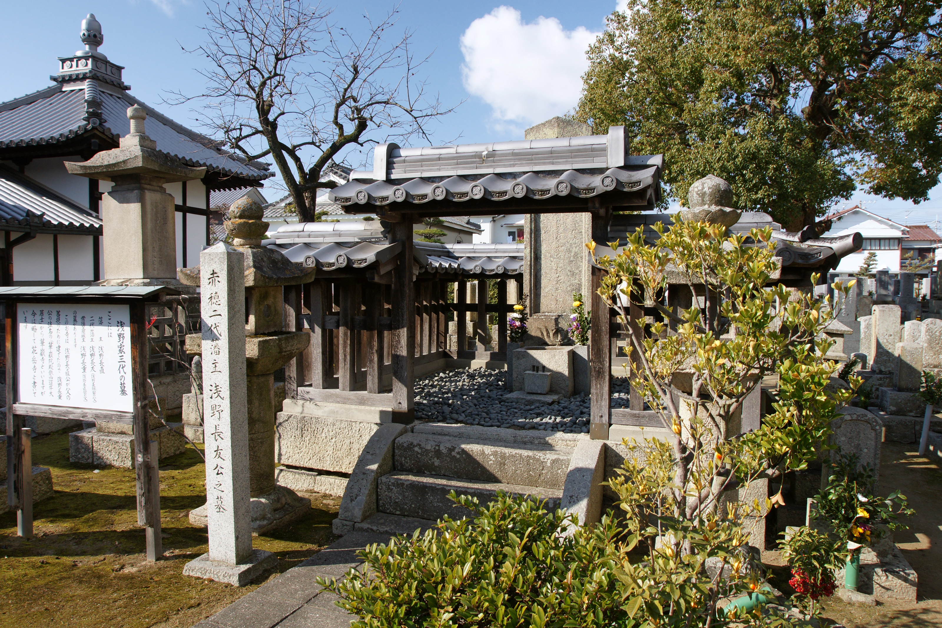 Kagakuji in Akō, Hyogo prefecture, Japan